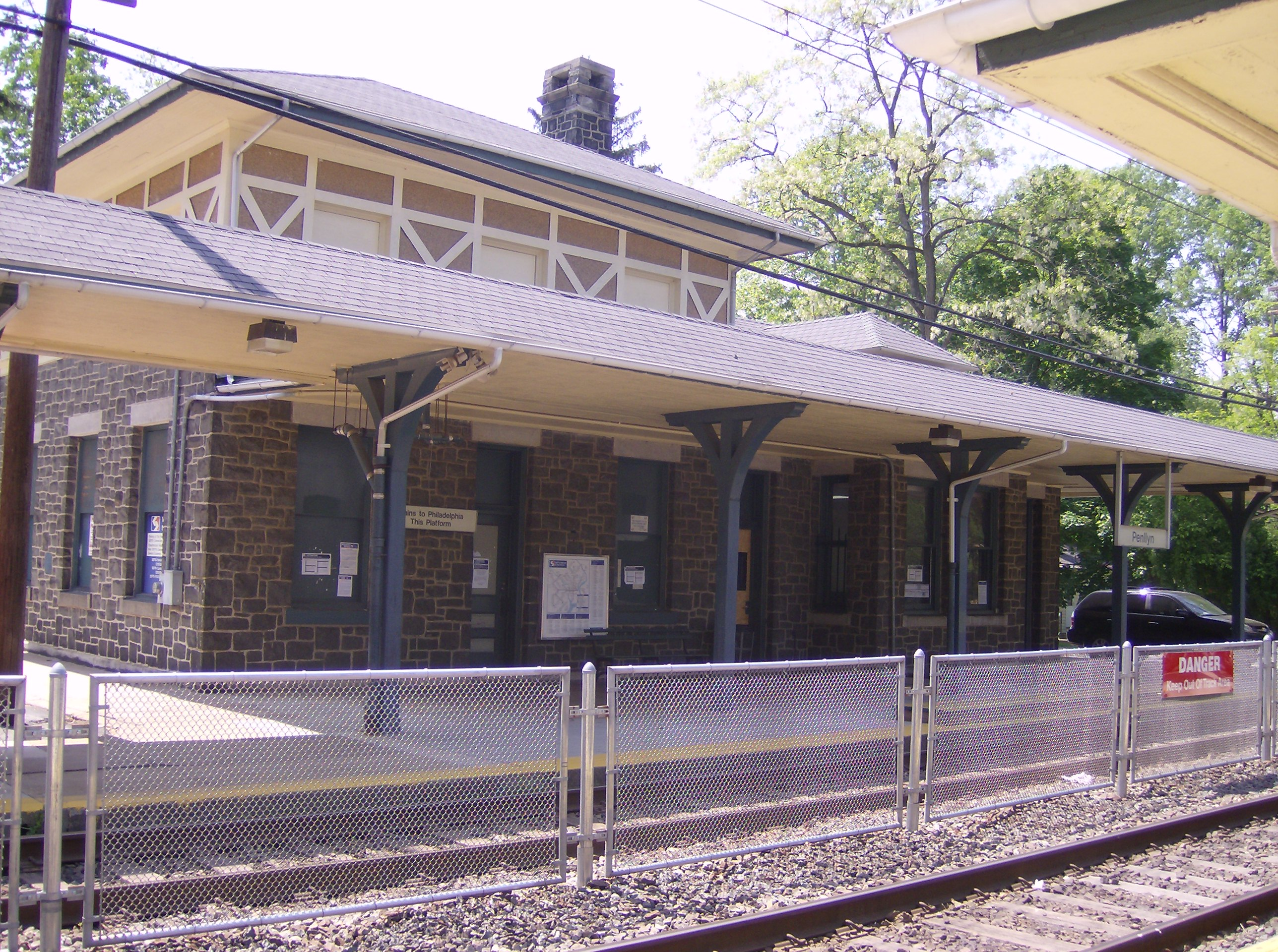 Penllyn SEPTA station as seen from the Doylestown-bound platform.